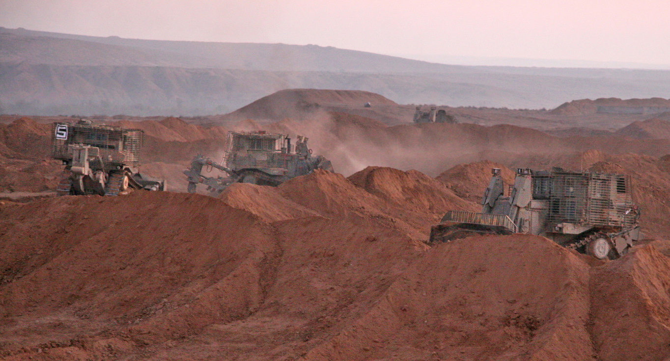 November 22, 2011 The IDF Caterpillar D9 is an armored bulldozer used for repair work. The Combat Engineering Corps is in charge of operating this machine. The 'Tzama' Unit- a specially designated unit within the corps specializes in the use of this equipment. This drill was held near the Gaza border where most of the D9 work takes place. Its armored frame keeps the soldiers safe as they work along the Gaza border. The Israel Defense Forces Facebook • blog • Twitter